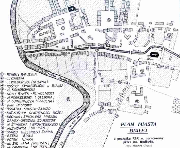 Map of Biala (quarter of Bielsko-Biala), 19th century